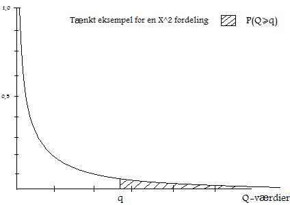 example of a chi square distribution w. danish text (paint-made and self-thought)